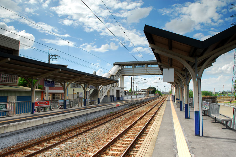 YongJing Station is a small local train station of Taiwan's Western main rail line. This photo shows the platforms and skybridge of YongJing Station.